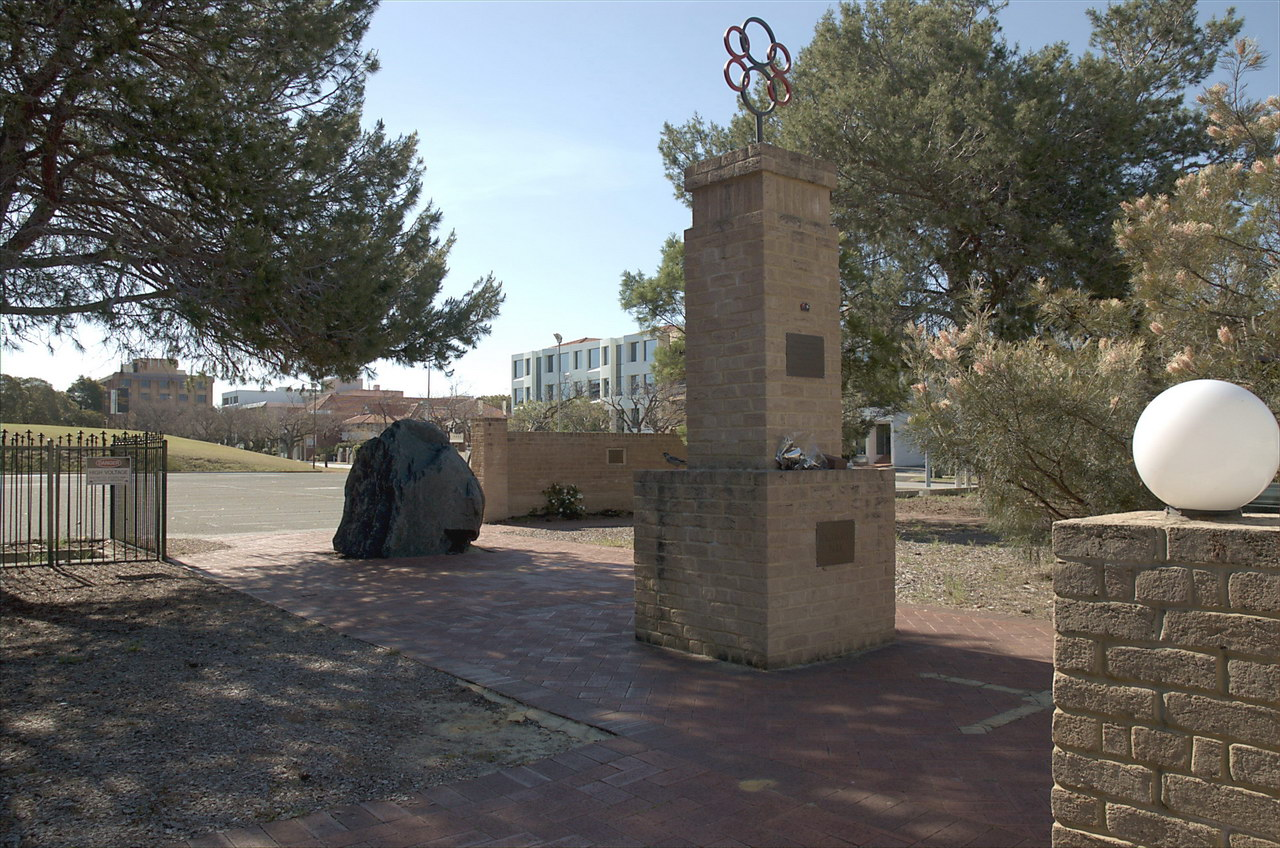 Solidarity Park - Perth, Western Australia.